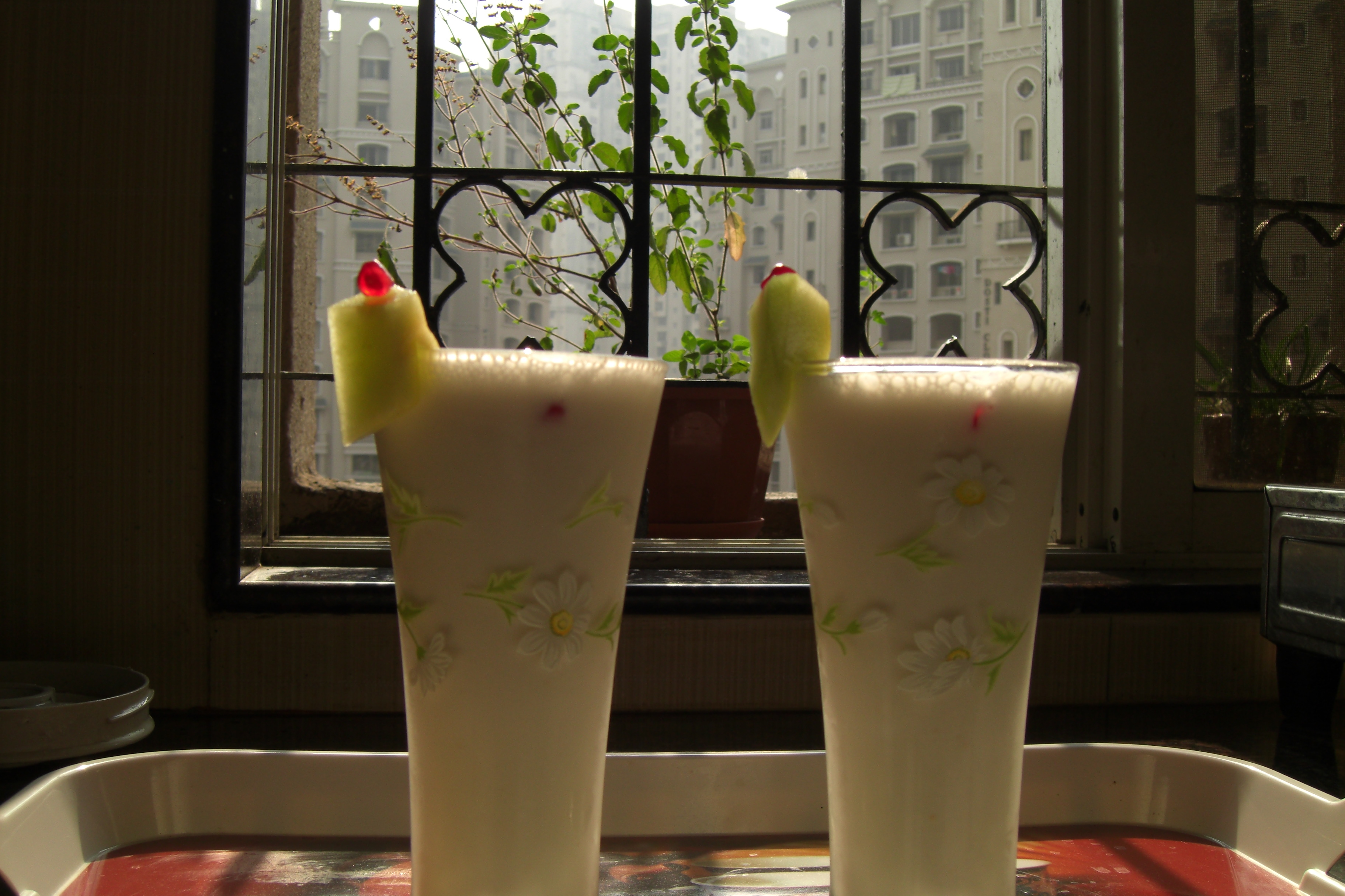 The tasty lassi (Yogurt-based) with Pomegranate for breakfast Mumbai India